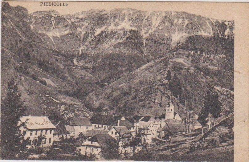 Postcard of Podbrdo.